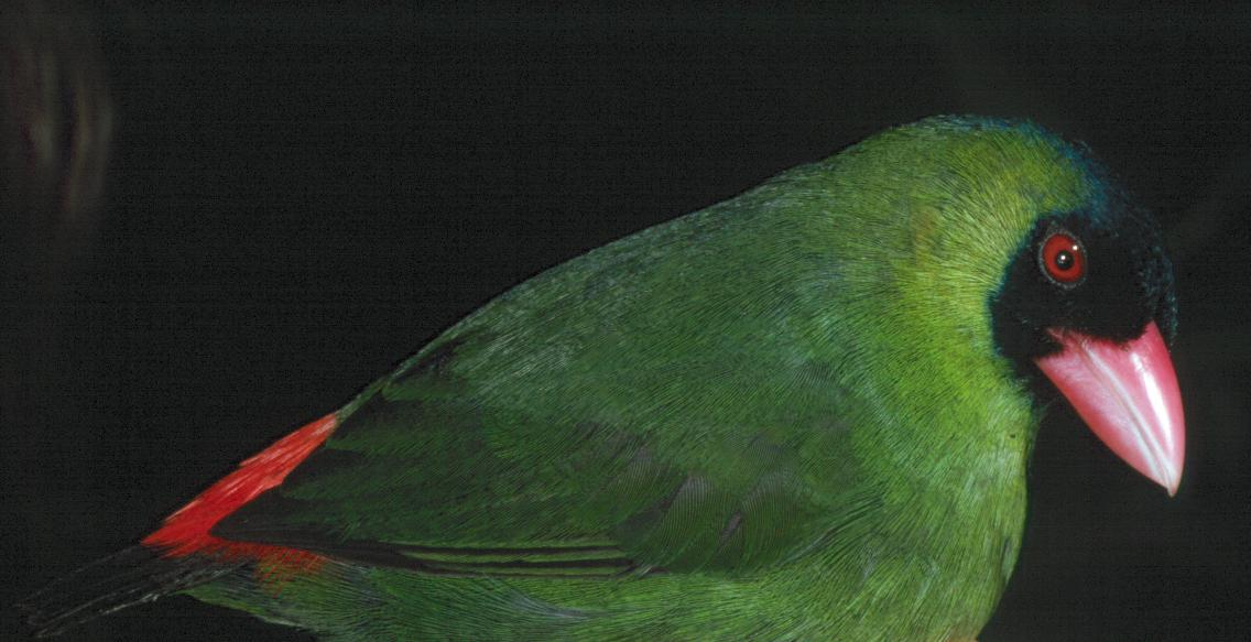 Pink-billed Parrotfinch Erythrura kleinschmidti, Savura Cr., Viti Levu, Fiji; 1976 May 2